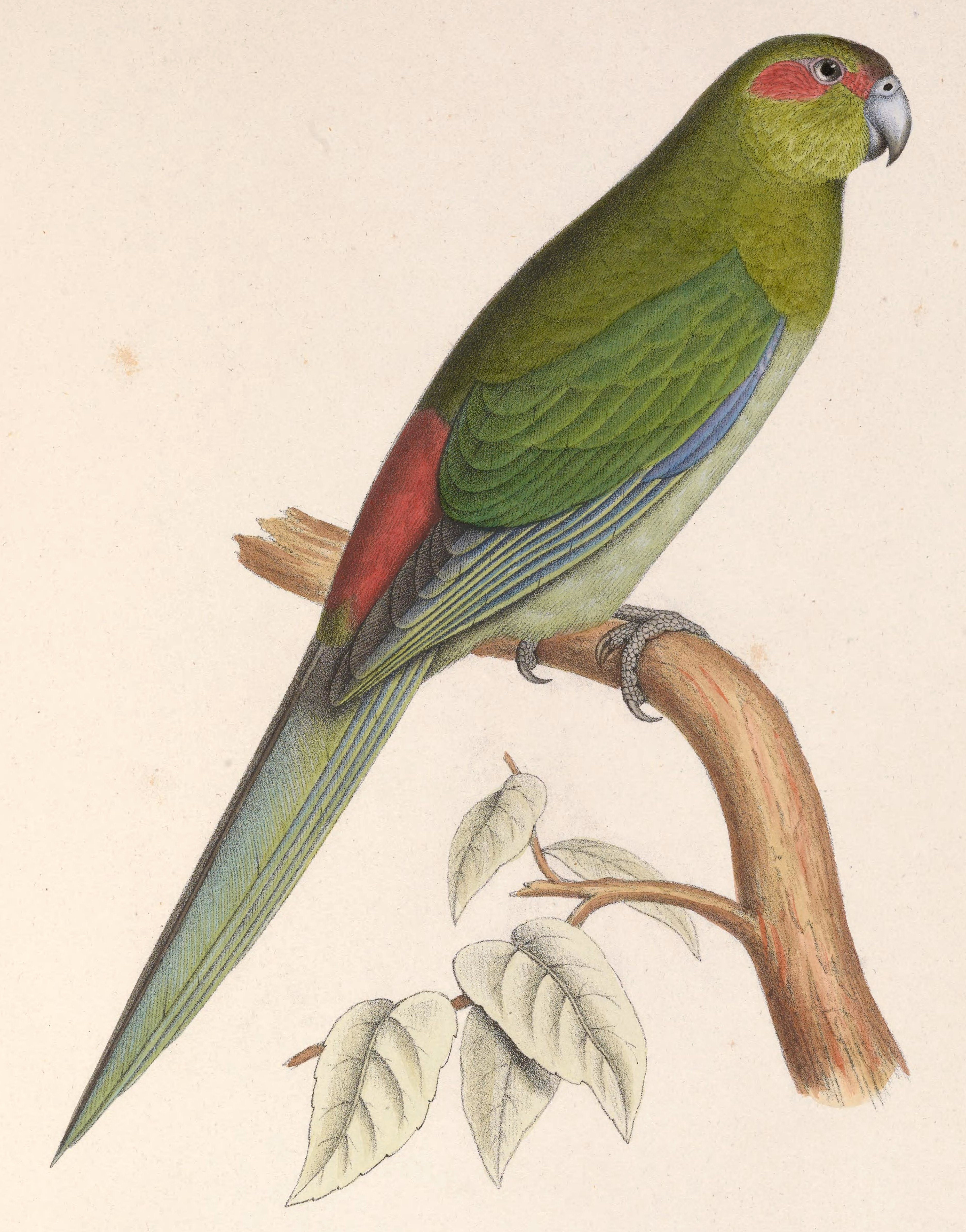 Platycercus pheton = Cyanoramphus zealandicus (Black-fronted Parakeet)